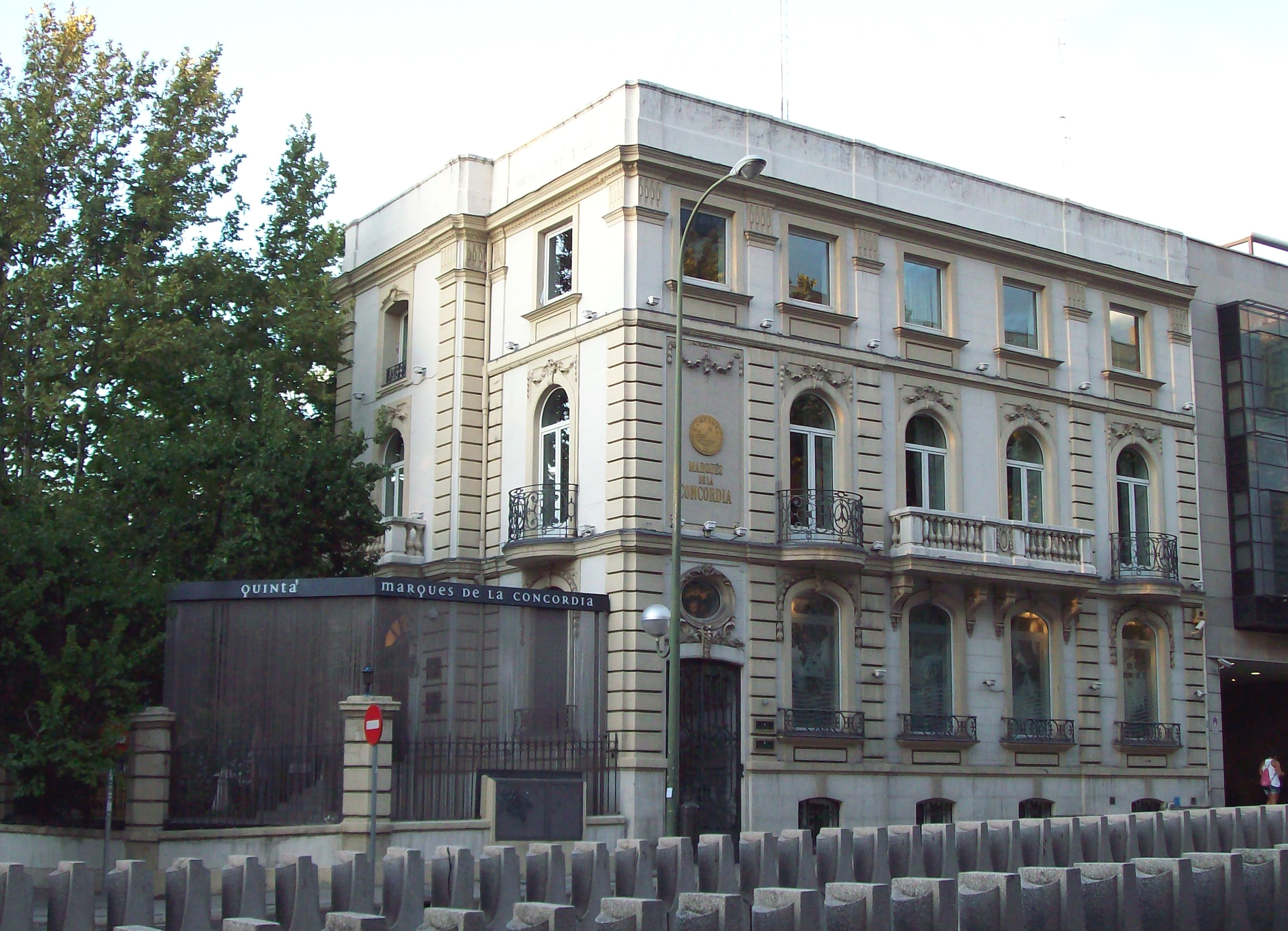 View of Palacete Borrás (a house-palace) in Madrid (Spain), at 25 Calle de María de Molina (street) in Chamartín district. It was projected by Francisco Borrás Soler and built between 1903 and 1908.